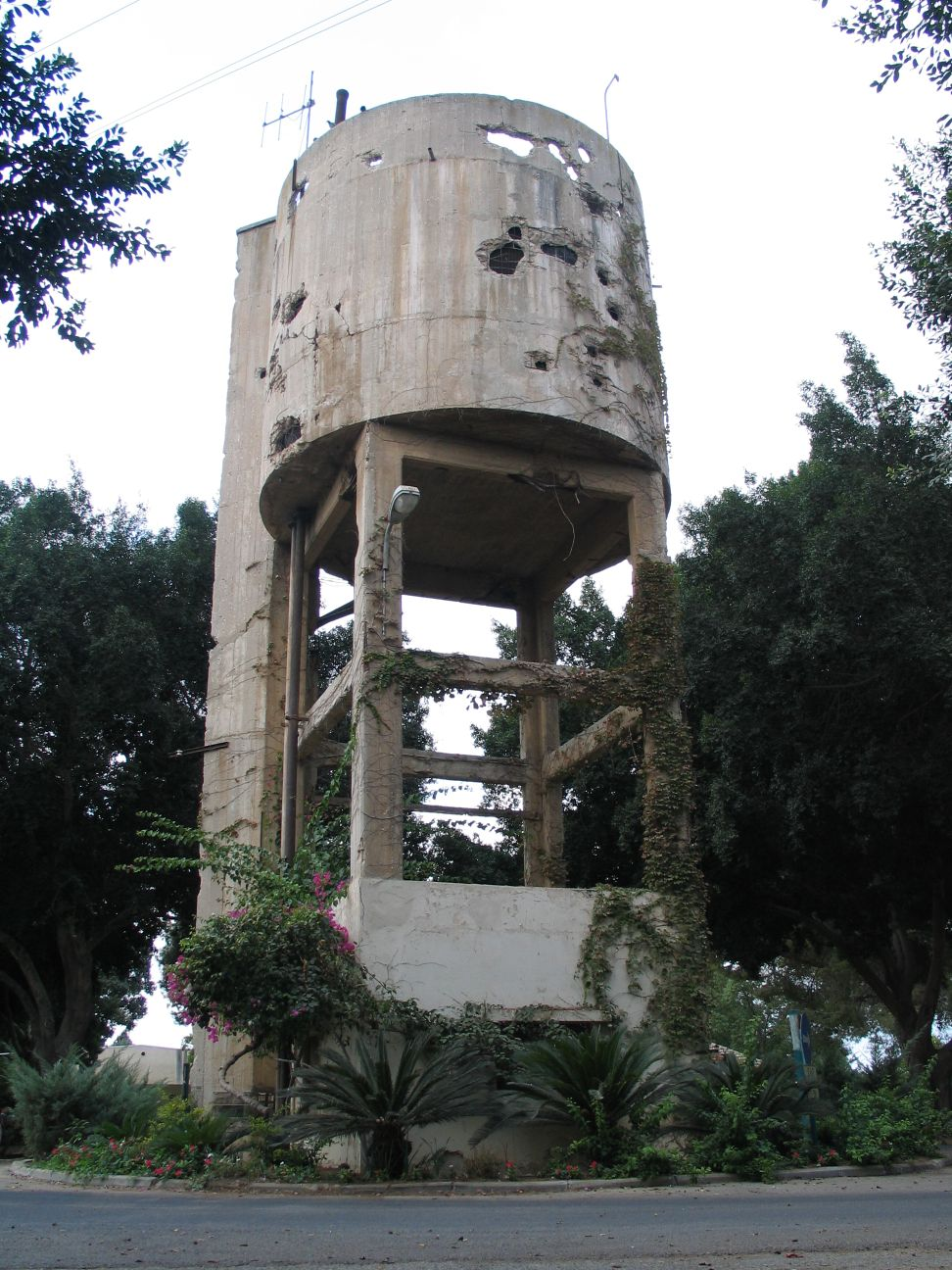 Description: Old water tower in Negba, Israel. Source: Photo by me, User:Bukvoed.